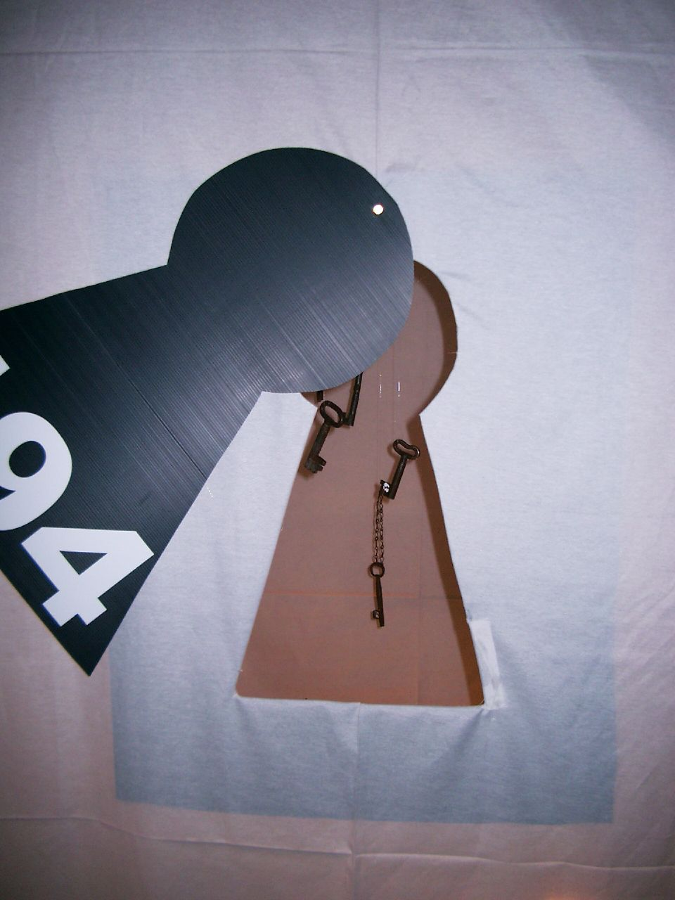 Art by a teenage Bethlehem artist. The keys are actual keys from Palestinian families who left their houses, and 194 on the keyhole symbolizes a UN resolution for the right of refugees to return to their homes. Israel has incredibly broad freedom of panorama.